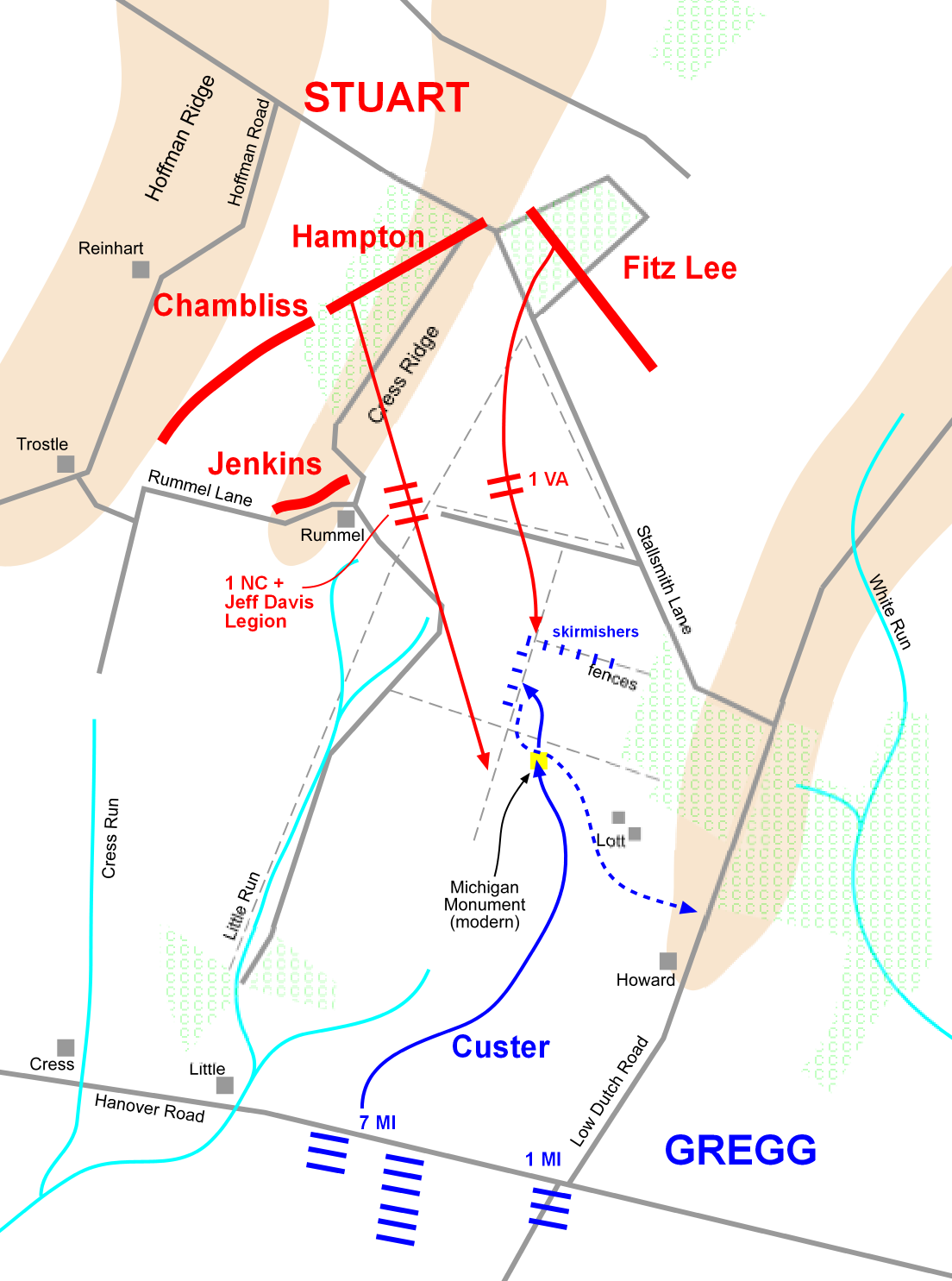 Map of actions in the Battle of Gettysburg, third day, East Cavalry Field (2 of 3)./